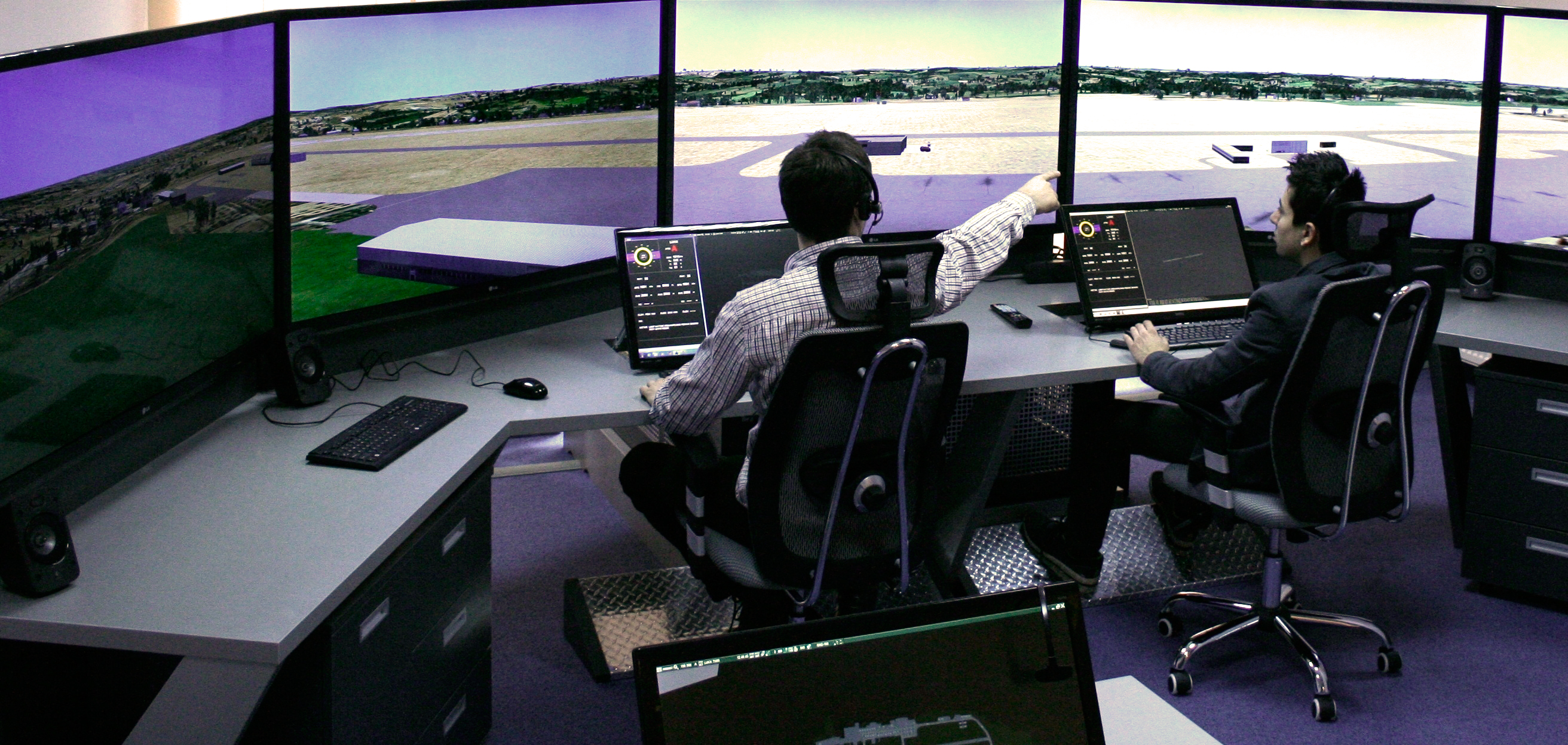 Fly Level ATC Tower and Radar Simulator